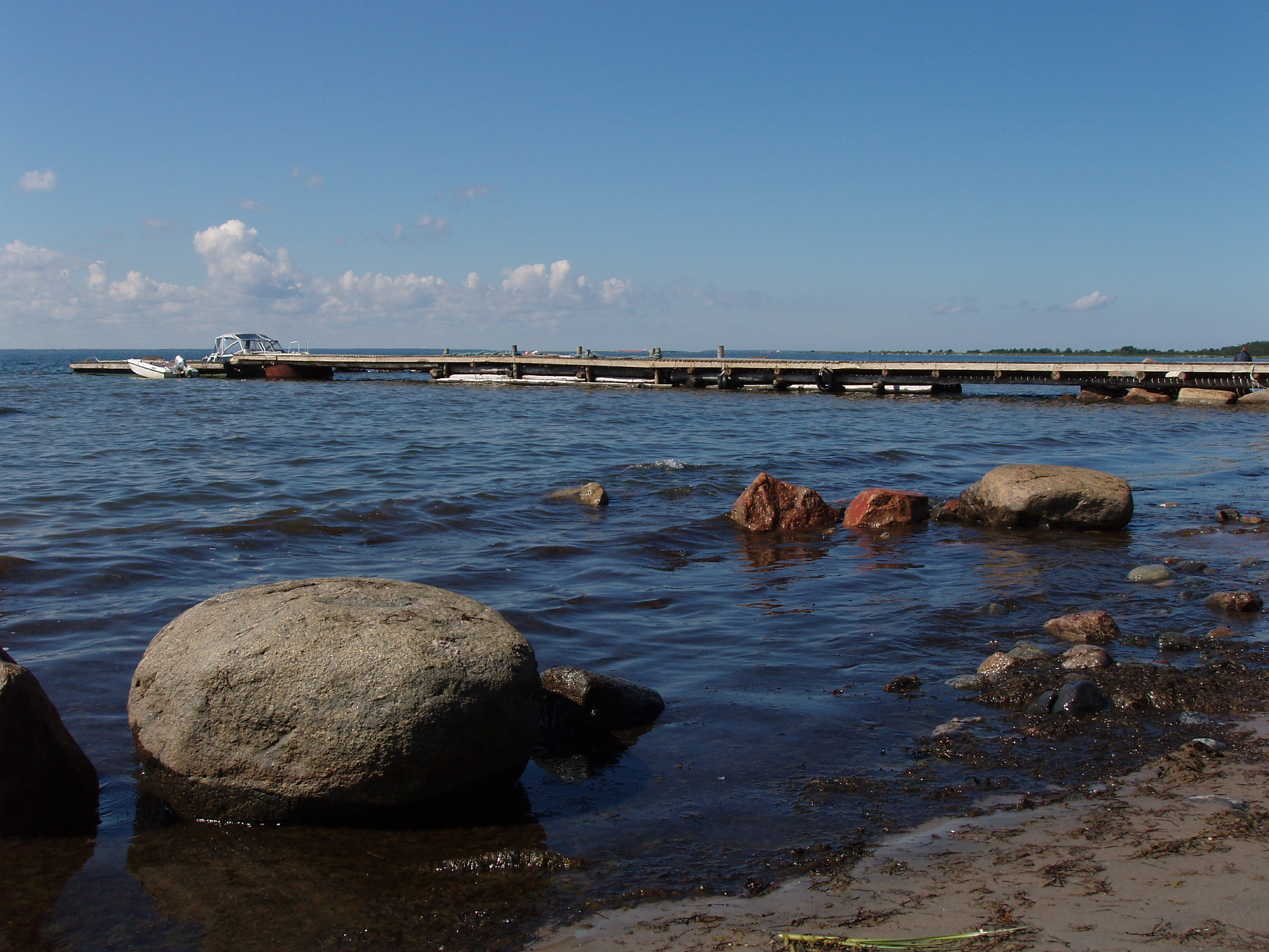 Harbour of Mölgi at island Prangli.